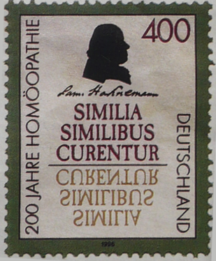 Photo: 200 years Homeopathy (postage stamp)